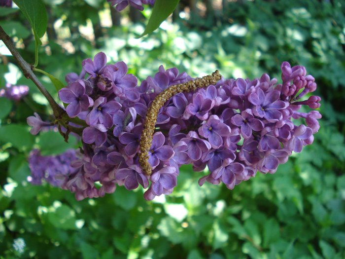 Syringa flower, photo taken in spring.